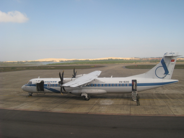 An ATR 72 in Dong Hoi Aiport